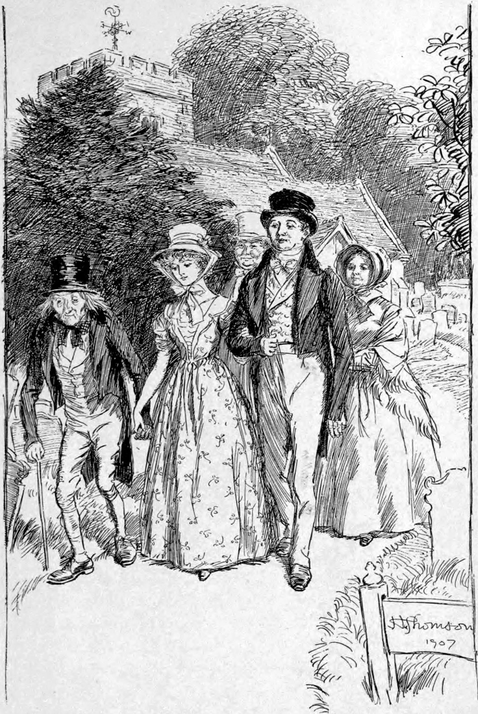 Illustration from the book Silas Marner, written by George Eliot, illustrated by Hugh Thomson